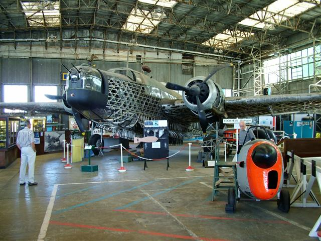 Vickers Wellington 1A Serial No N2980 on display at the Brooklands Museum, July 14, 2006. Picture by